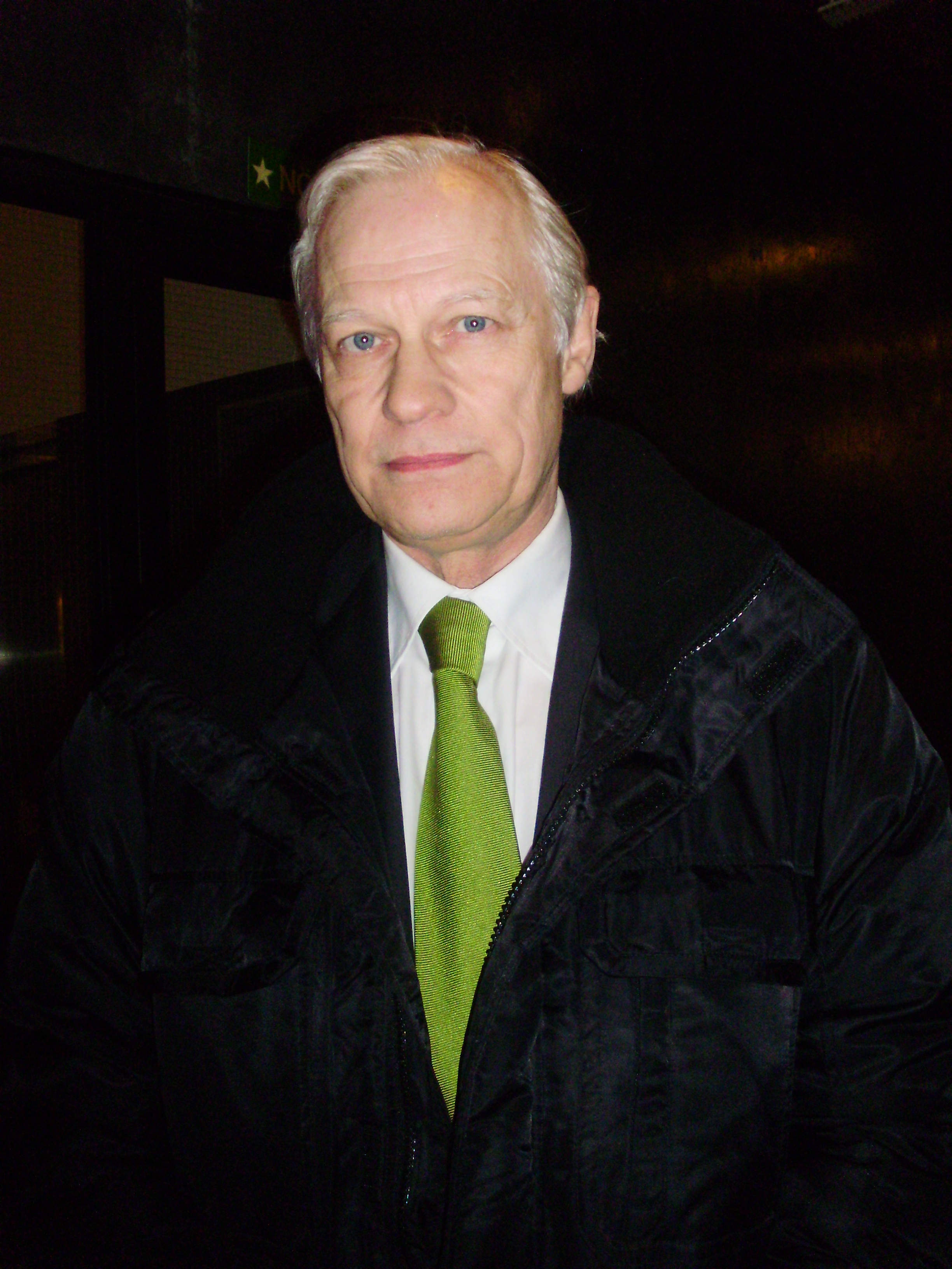 Ola Salomonsson, lawyer for prosecuted Gottfried Svartholm Warg, at the district court in Stockholm in Sweden, at The Pirate Bay trial (The Spectrial).